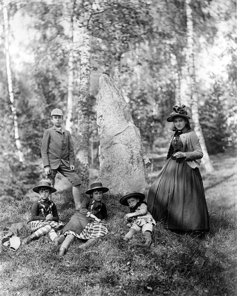 The Curman children with their french governess beside a rune stone (U 107) at the Antuna estate, Sweden. The inscription says: "Geirlakr(?) had ... in memory of Hemingr, his son; and Erinmundr in memory of Holmfríðr, his wife, and in memory of Una/Unna, (his) daughter"